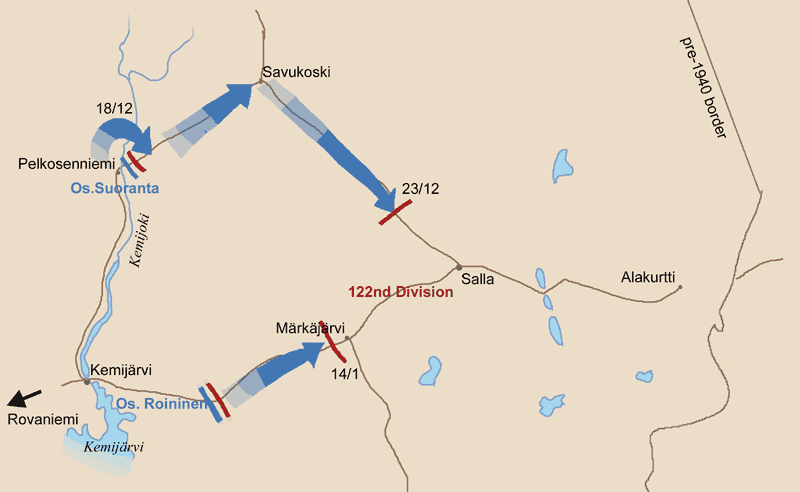 Battle of Salla 1939-1940, second phase.